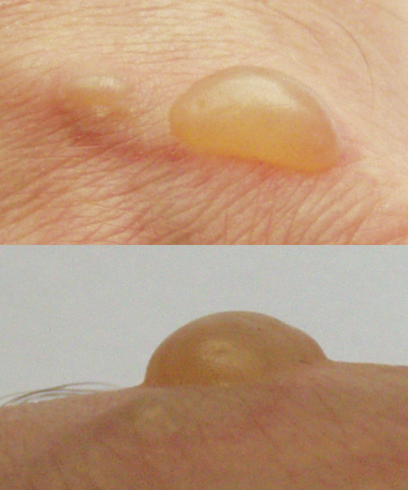 Blister from Burns (Top view). It was caused by hot cheese that leaked out of a deepfried Dutch specialty onto a hand and stayed there for about 10 seconds. The picture was taken about 12h after the incident.